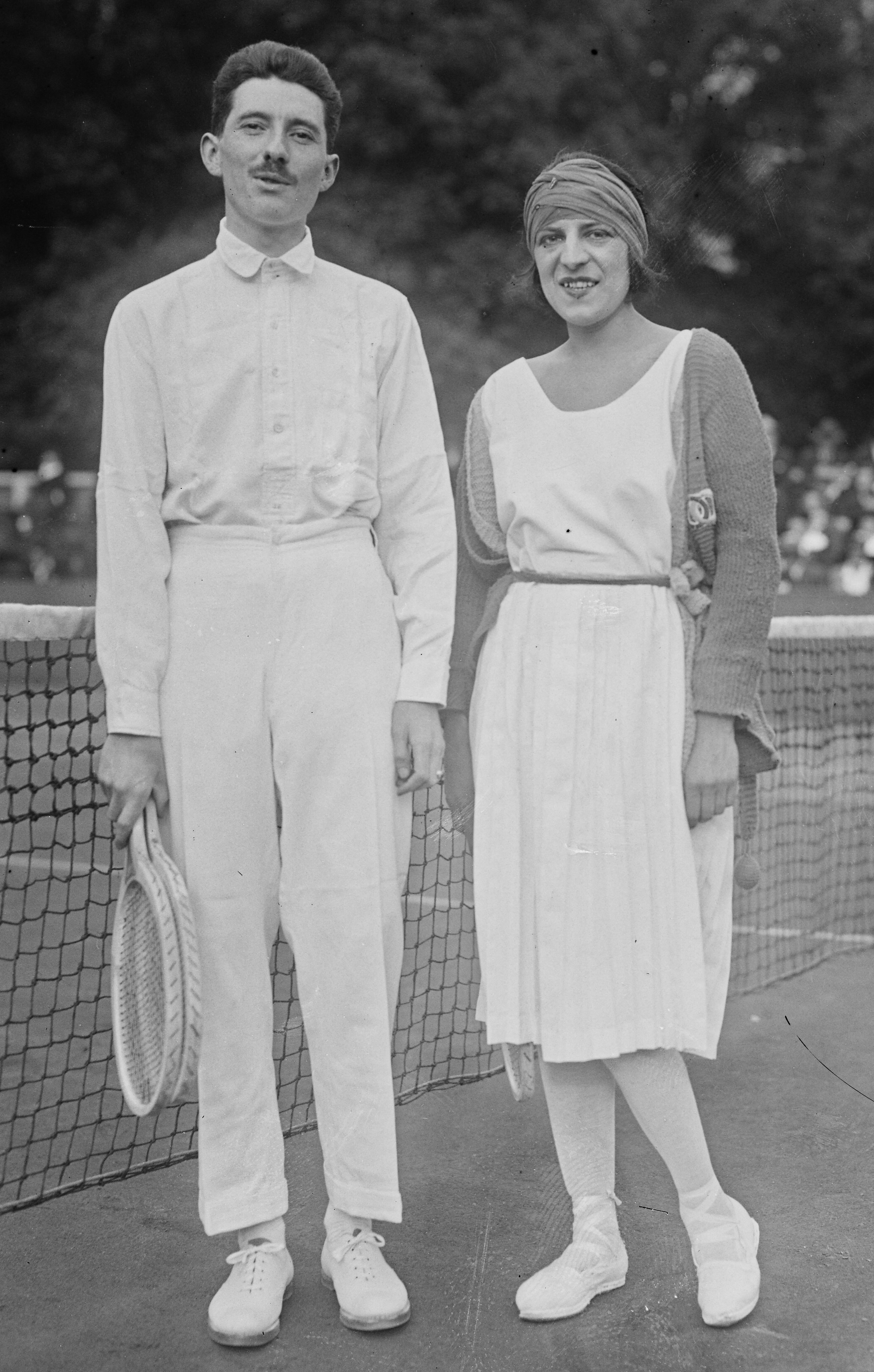 Jacques Brugnon and Suzanne Lenglen at the 1921 French Championships